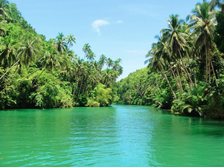 Loboc River in the Bohol province of the Philippines.